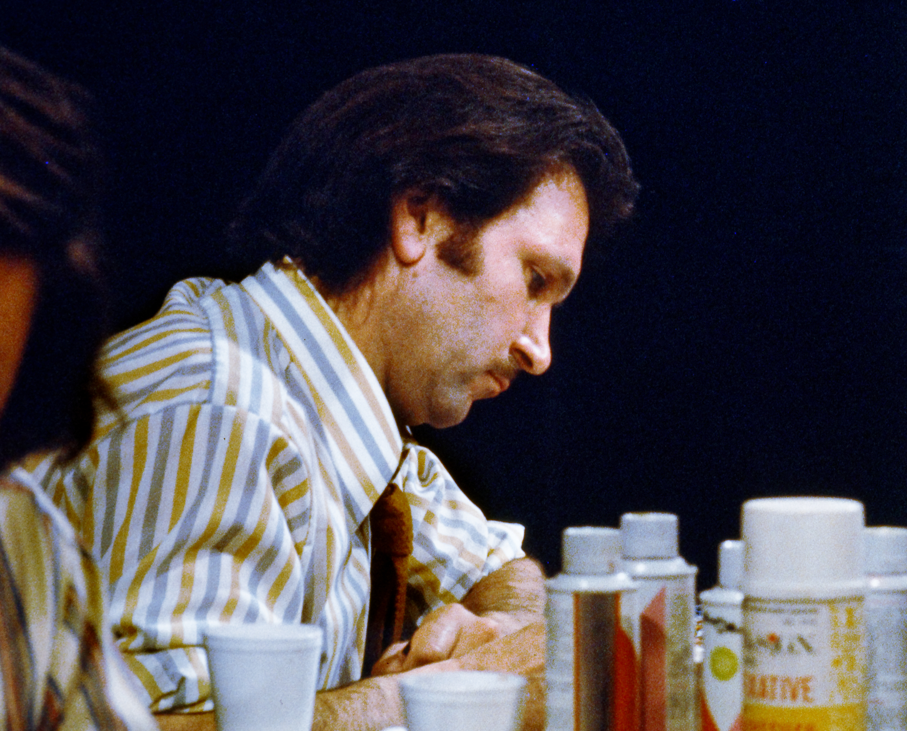 Jean Tabary in 1973 in Montreal. Supplementary technical data: digitization of a 35mm slide. Original camera: Nikon F with 43-86mm Nikkor lens.